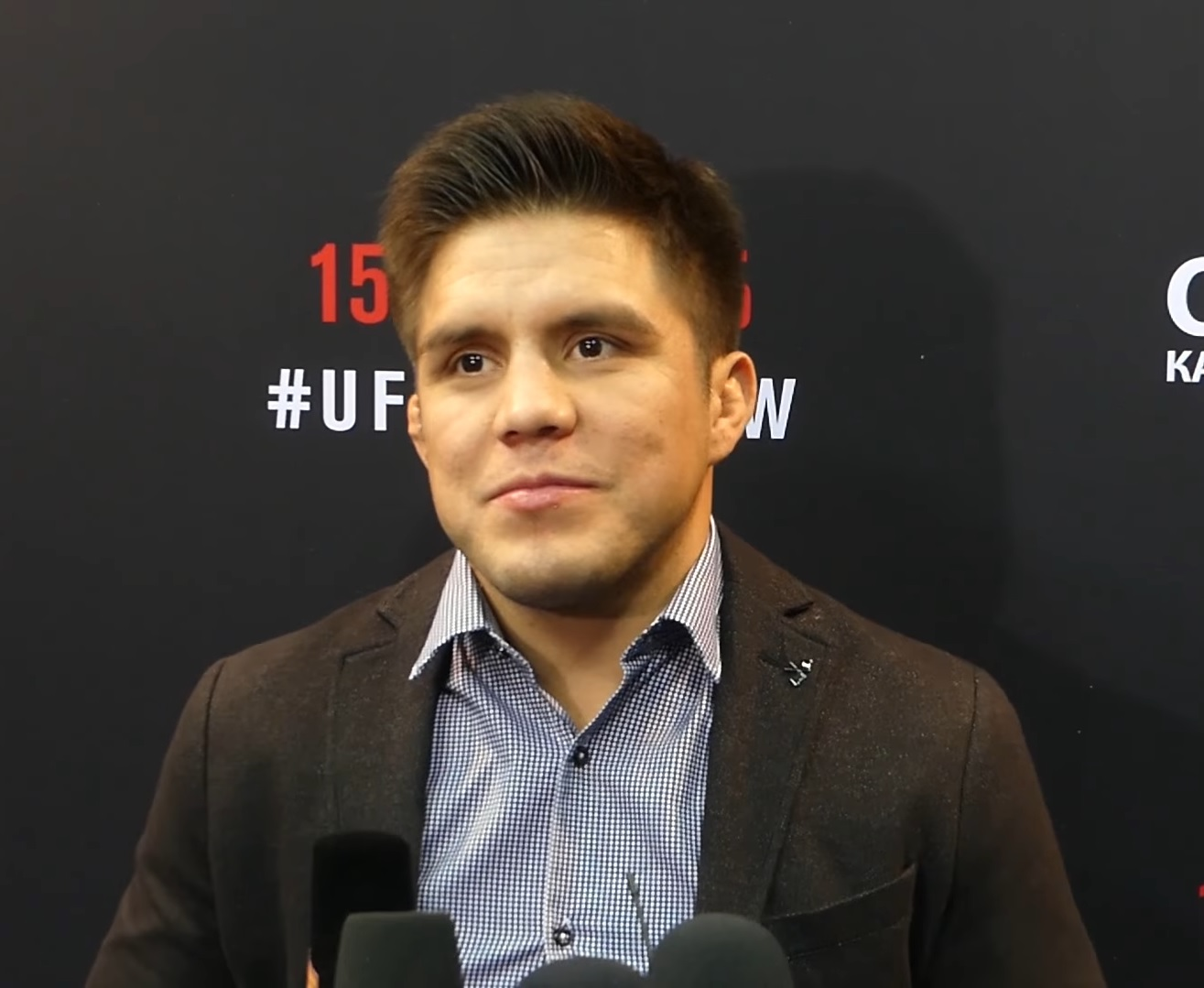 American wrestler and MMA fighter Henry Cejudo.